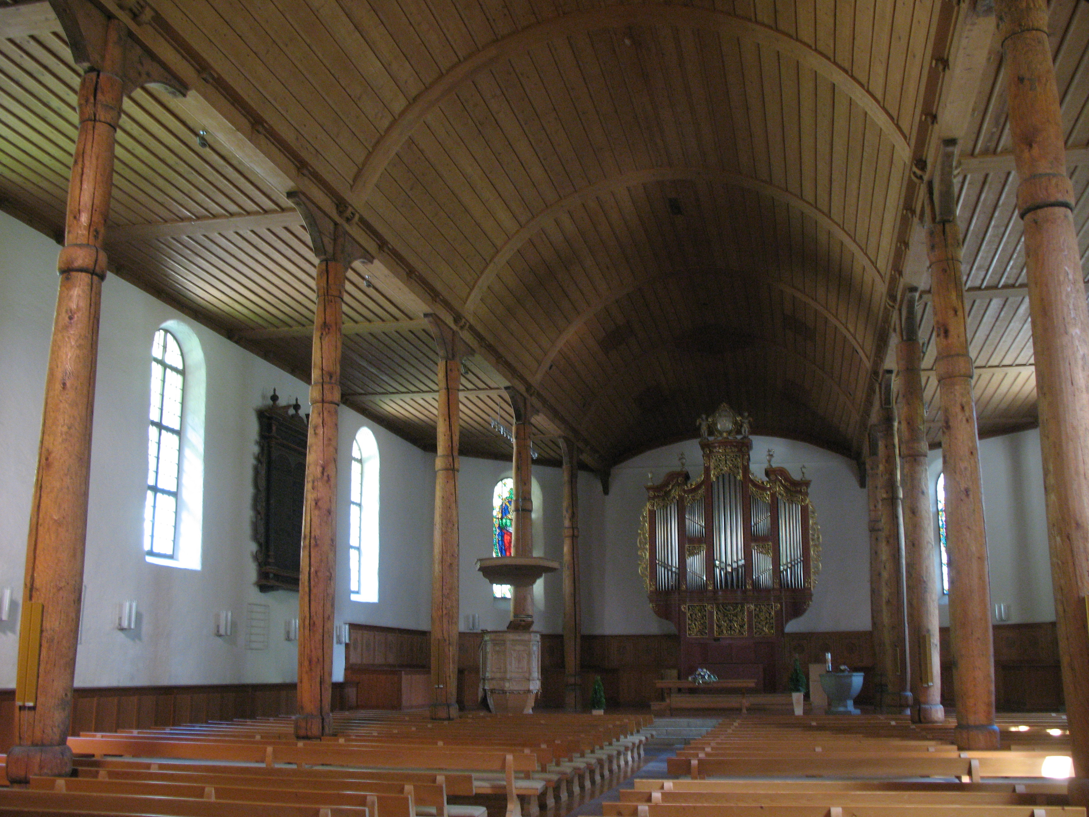 Evangelical Reformation Church, Meiringen, Switzerland